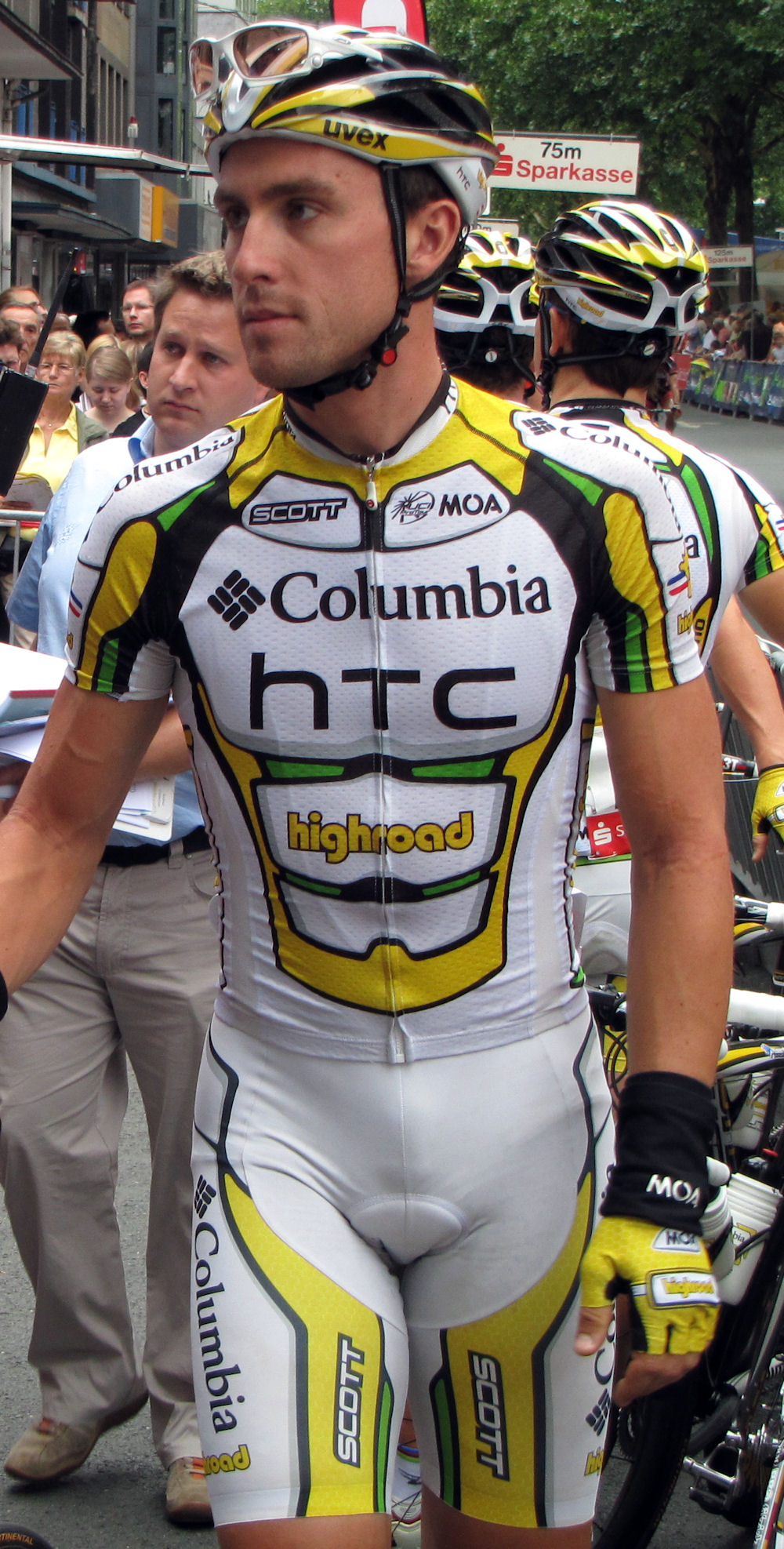 Bernhard Eisel